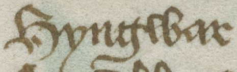 Excerpt from folio 48v of Harley MS 2278.